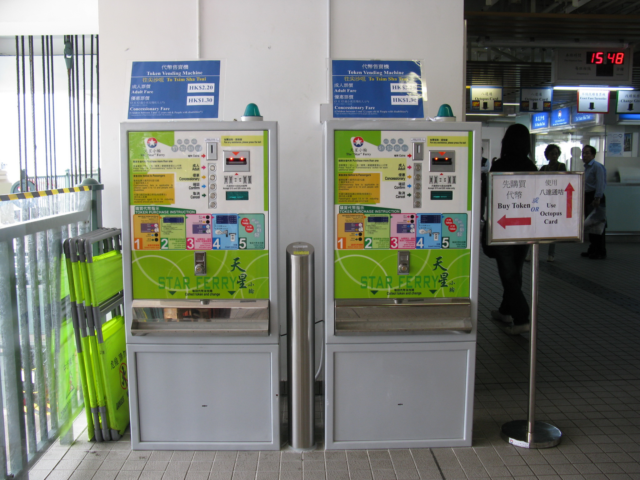 中環天星碼頭代幣售賣機 Token Vending Machine facilited at Star Ferry Pier, Central